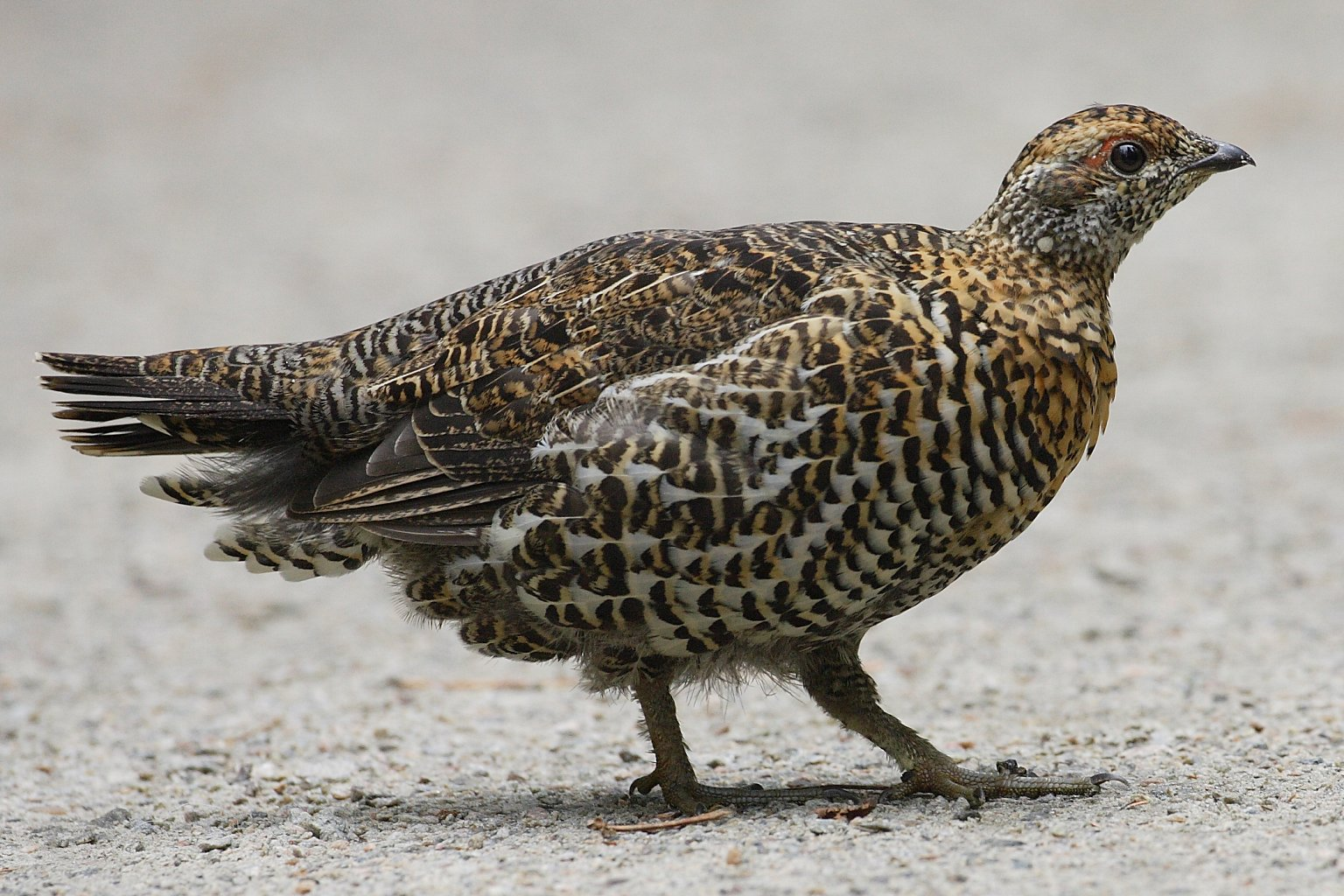 Spruce Grouse -- Algonquin Provincial Park, Canada -- 2006 September